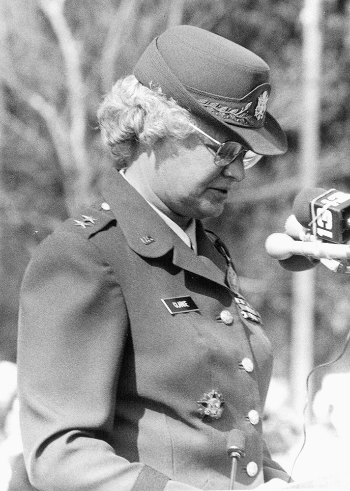 From the back of the photo: PROJECT: RETIREMENT Fort McClellan, AL MG Mary E. Clarke's retirement ceremony. PHOTOGRAPH BY: SP5 Abel M. Vicente, Photographic Facility, Fort McClellan, AL Handwritten: Farewell address